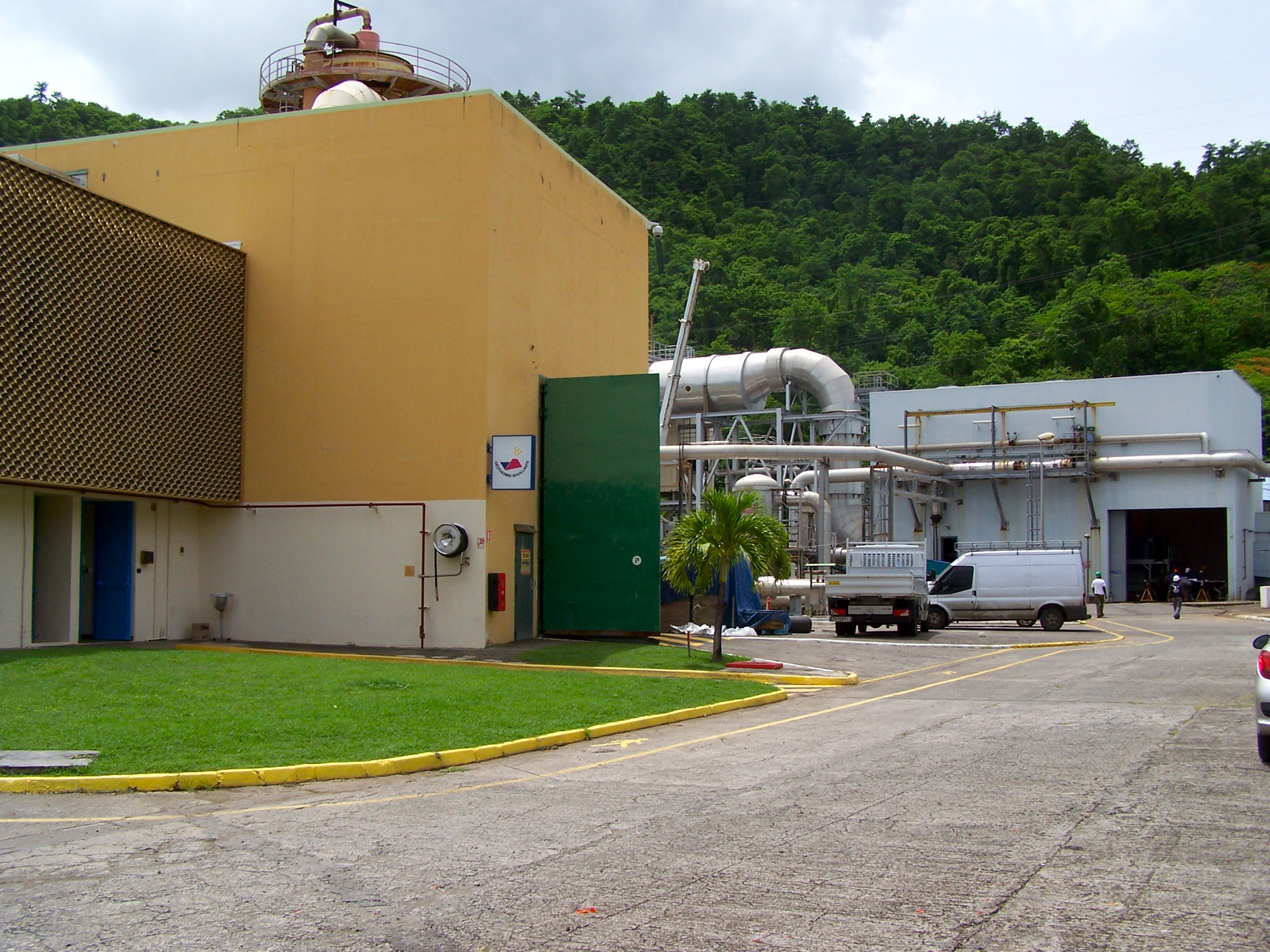 Production units 1 (left) and 2 (right in the back) at the geothermal power plant of Bouillante, Guadeloupe